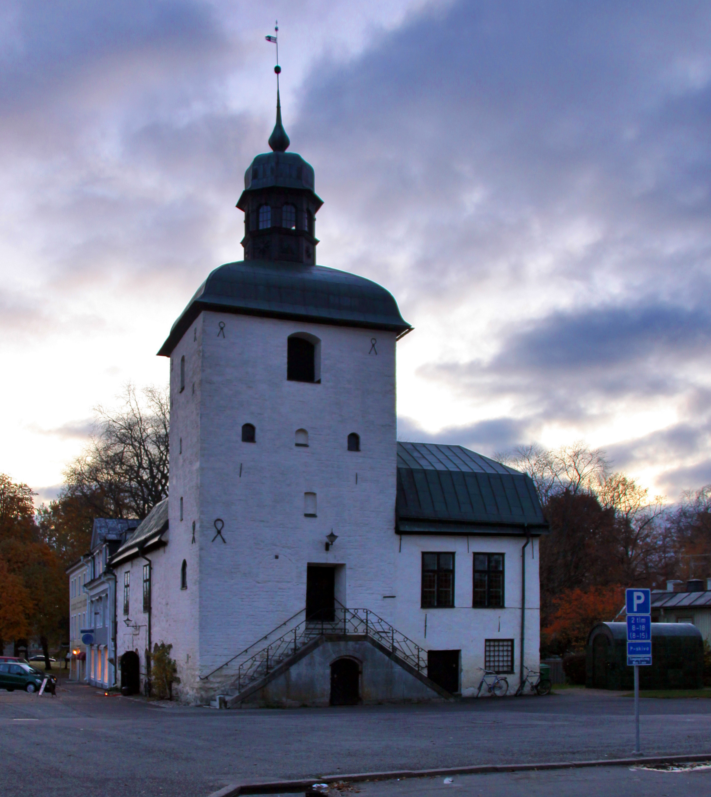 Vadstena, Sweden; the townhall.